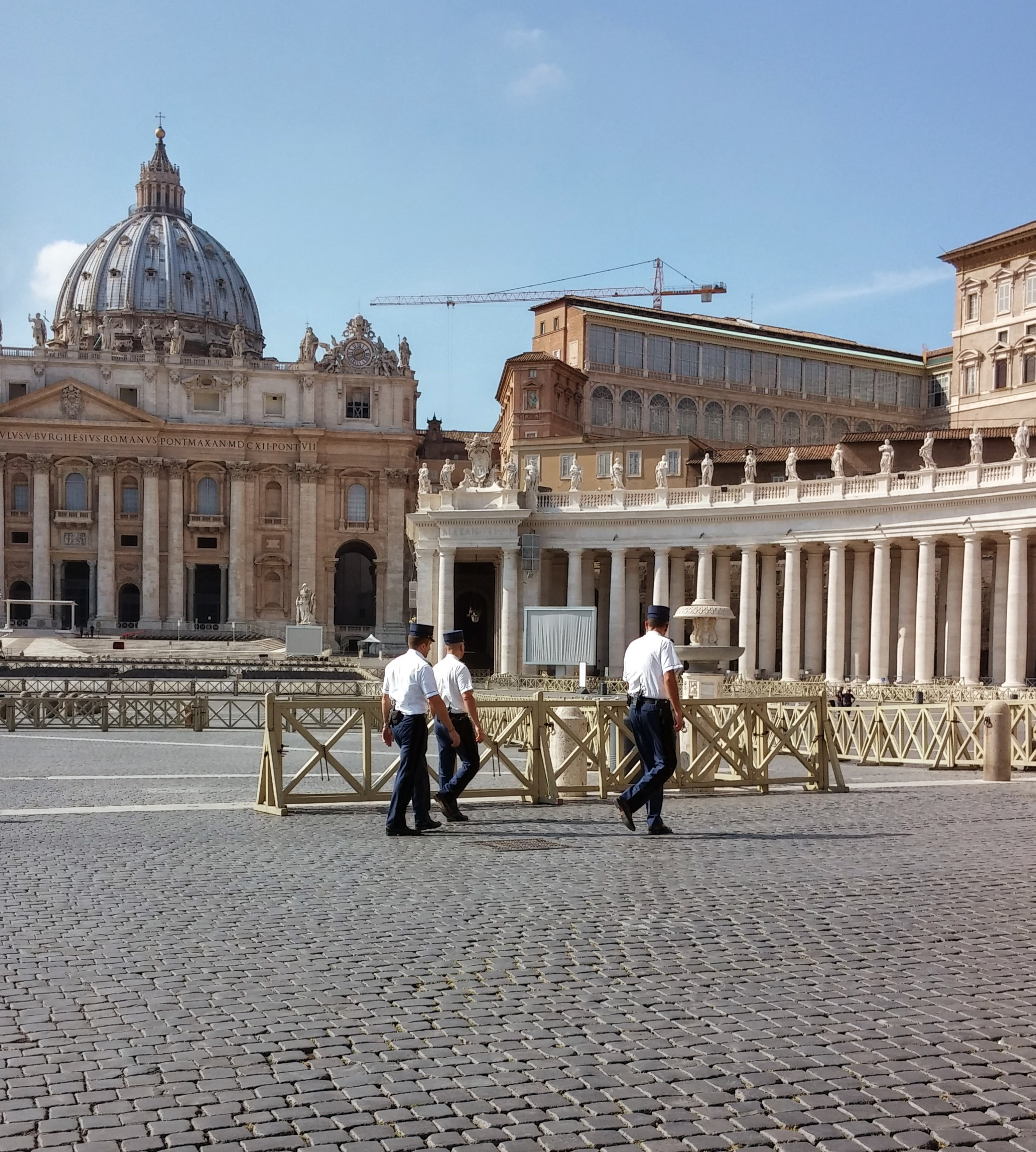 Vatican police officers patroling Saint Peter's square, Vatican City.